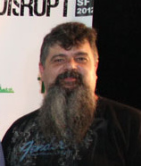 Apple's Big News Panel of TechCrunch Disrupt SF 2012 Day 3: Jim Dalrymple, MG Siegler, Jason Snell, Tim Stevens, Darrell Etherington.